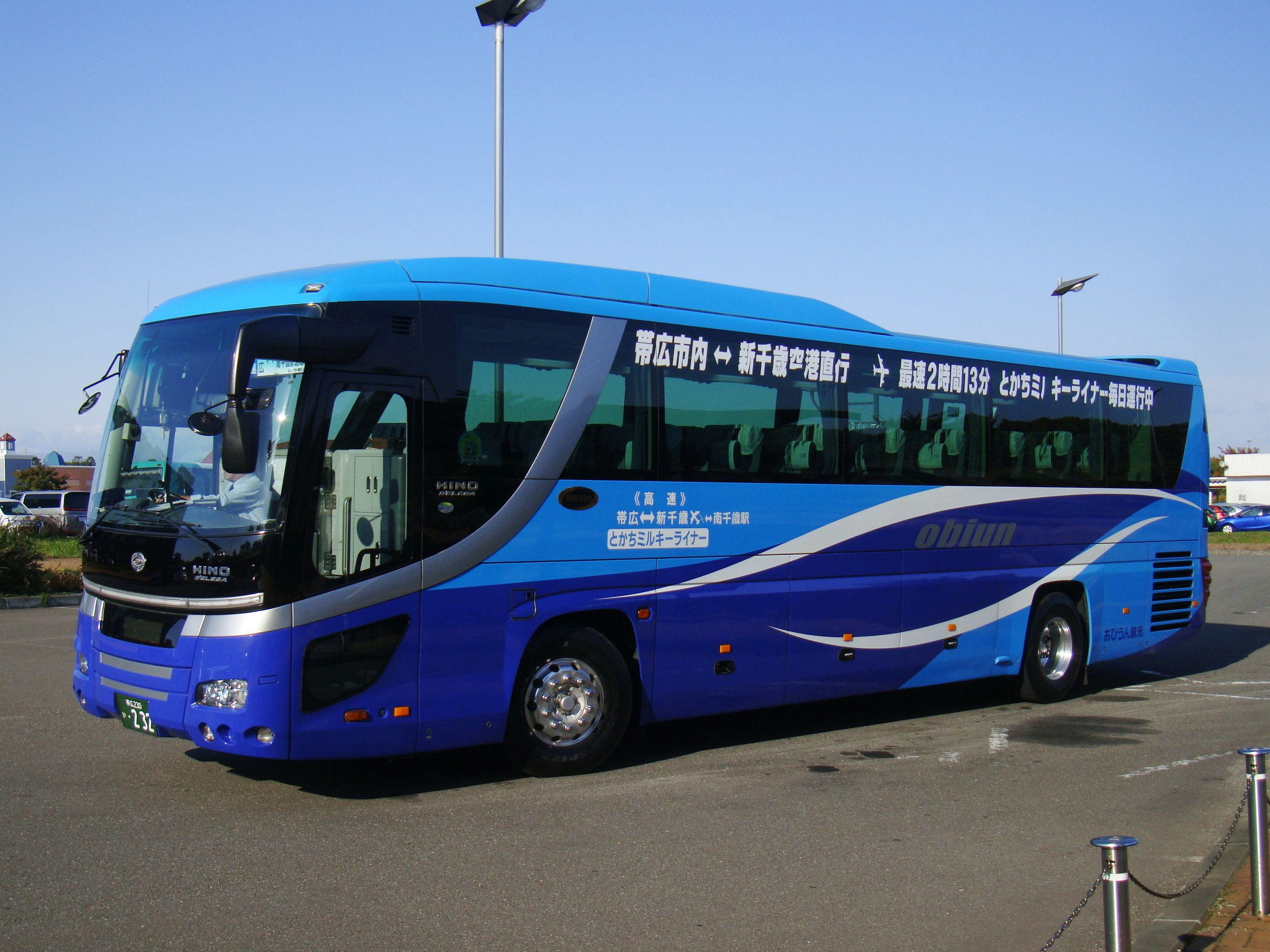 "Tokachi Milky Liner" Minami-Chitose Station to Obihiro via New Chitose Airport